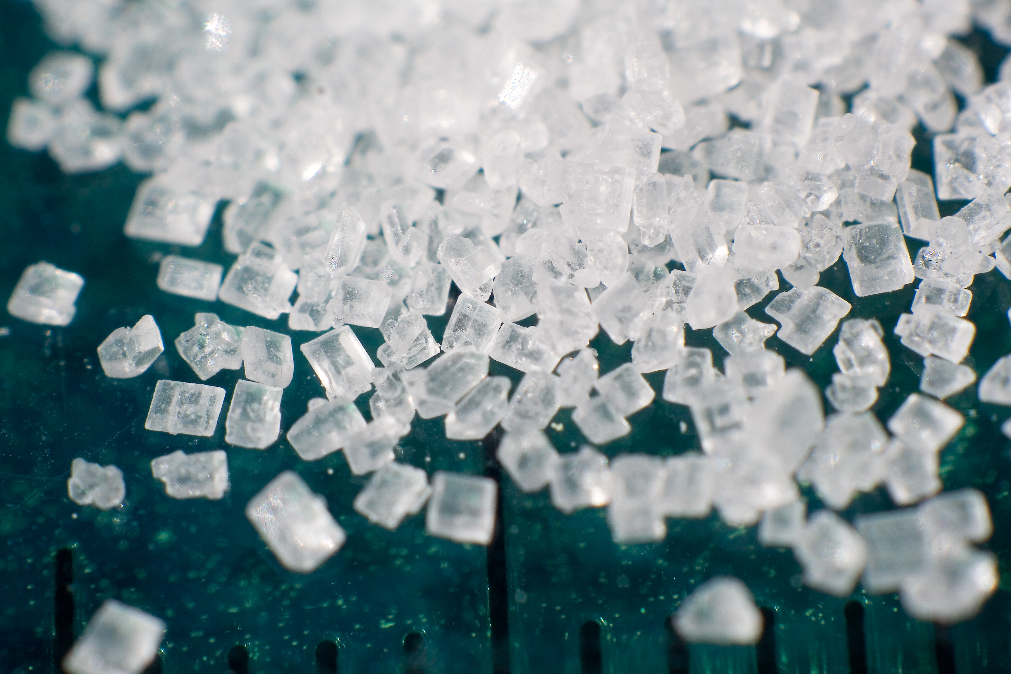 Macro photograph of a pile of sugar (saccharose) Bân-lâm-gú: pe̍h-thn̂g. 白糖